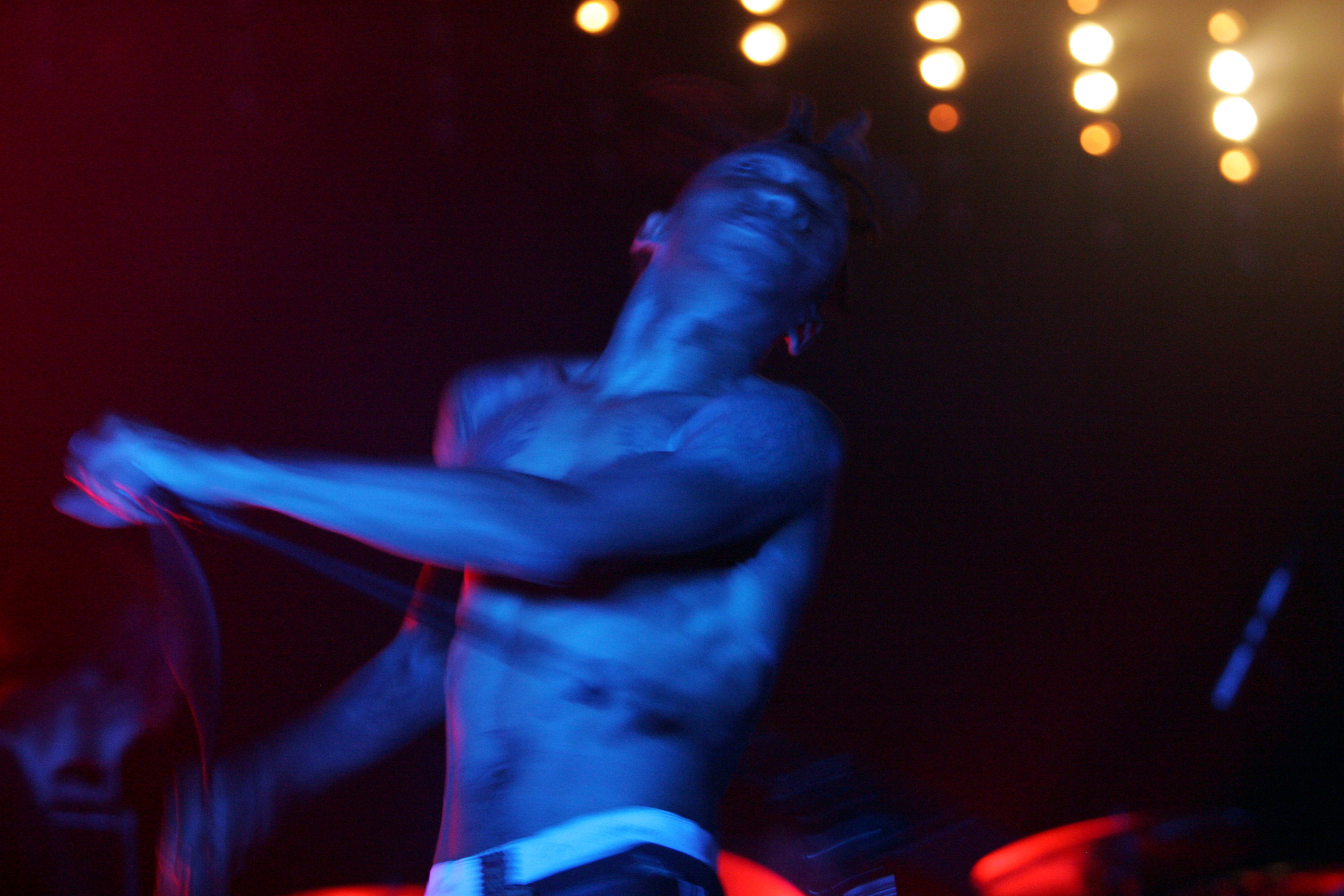 Tricky at Pully For Noise festival 2008